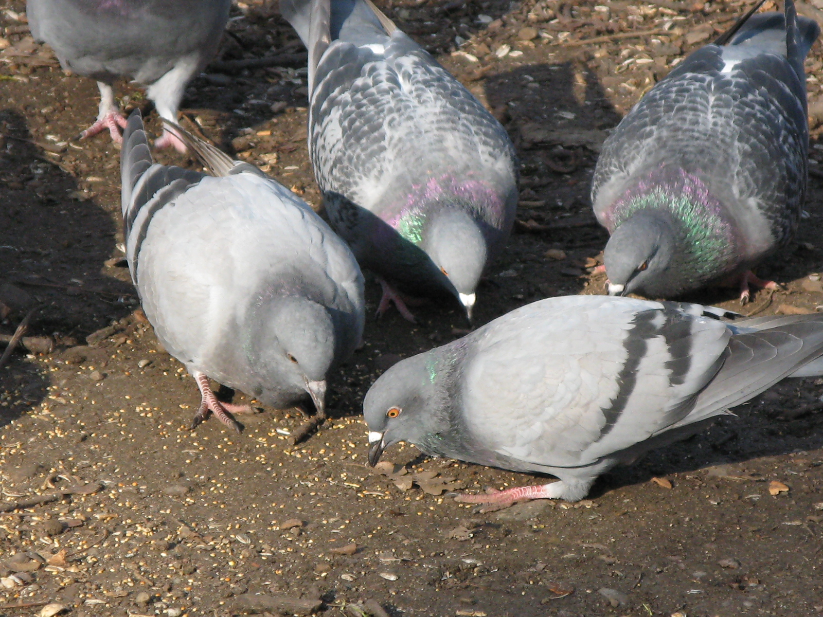 well fed Rock Pigeons in the park of Schönbrunn Palace